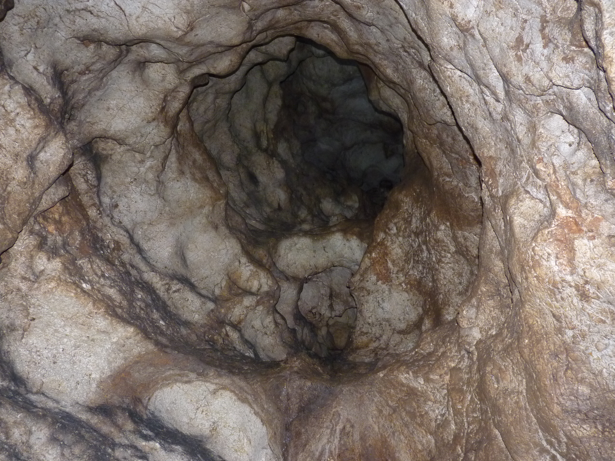 Solymár Cave: chimney seen from the Circus (Cirkusz)